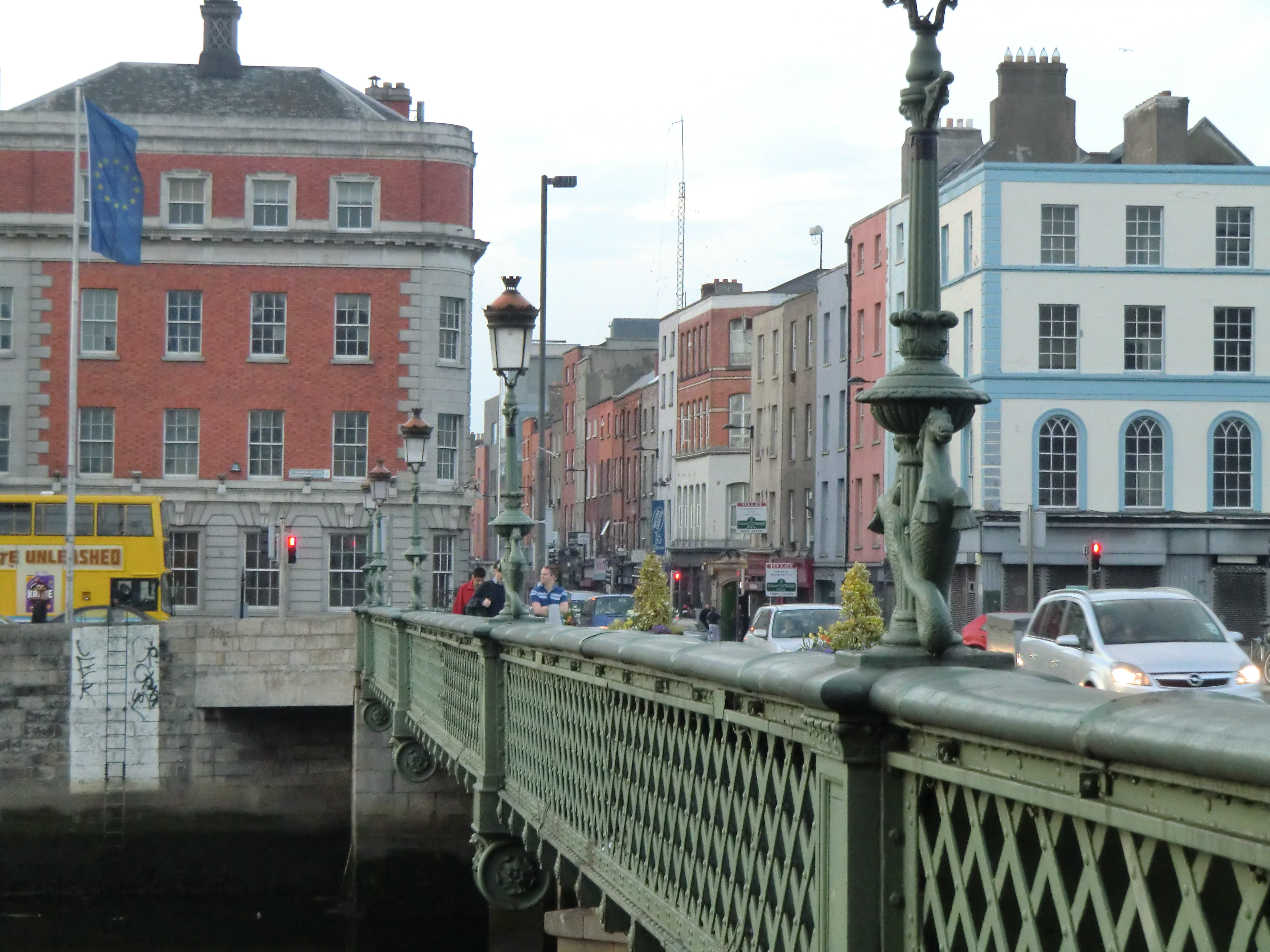 Grattan Bridge, Dublin, Ireland.